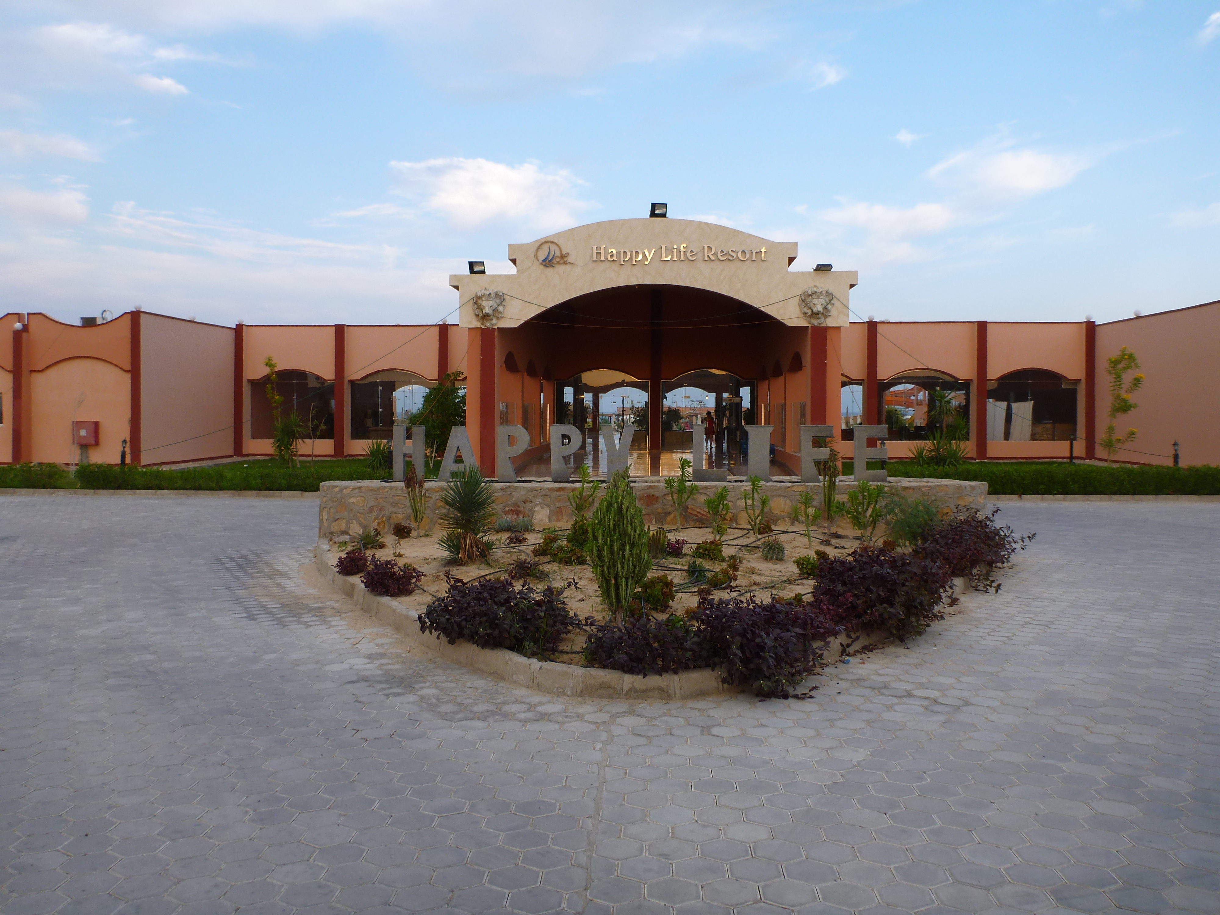 Entrance of Happy Life Resort near Marsa Alam